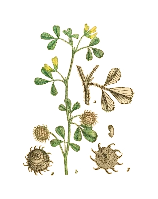 Illustration of Medicago rigidula.